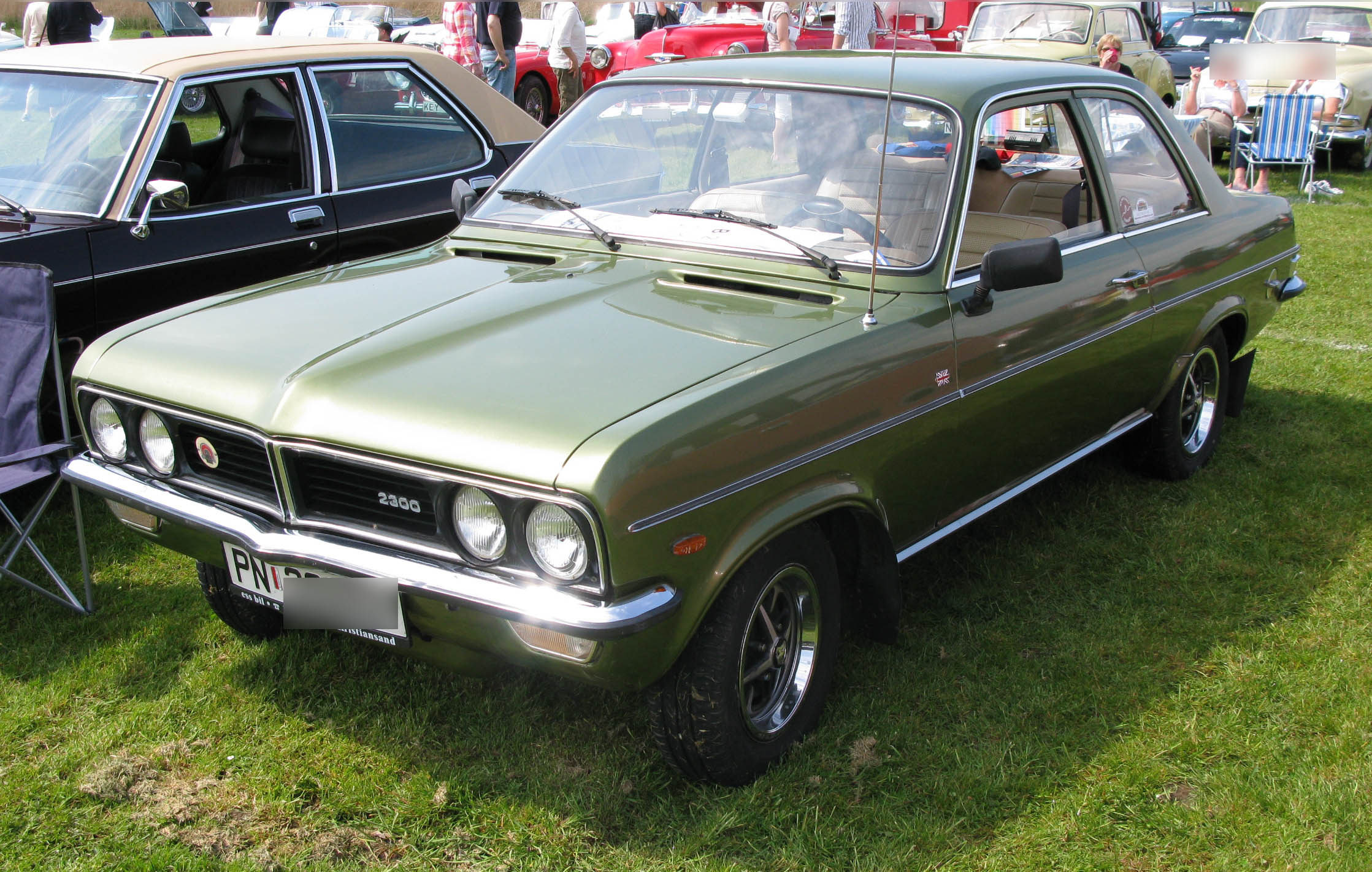 Vauxhall Magnum 2300. Event: Tjolöholm Classic Motor 2012.